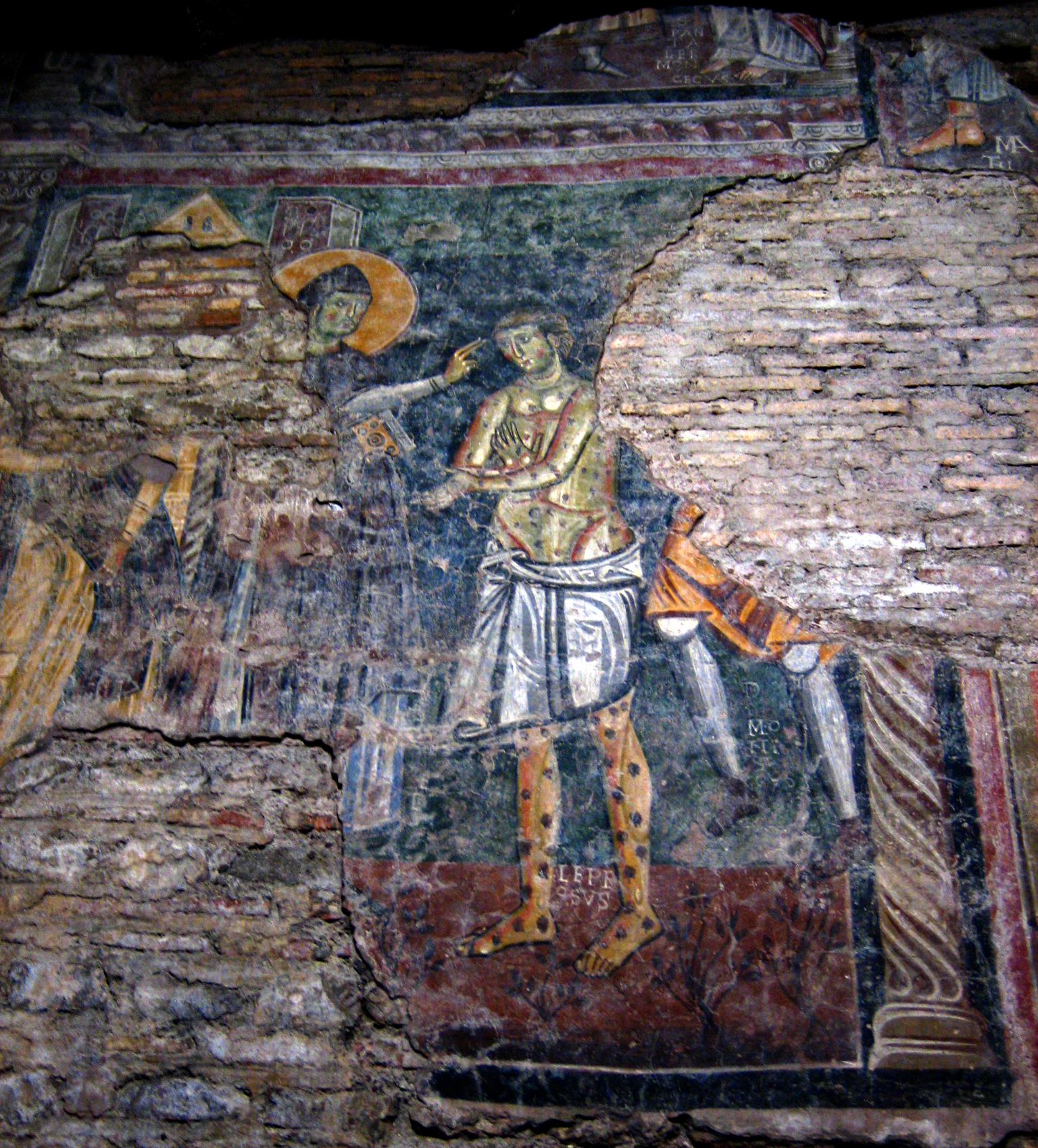 In the excavated fifth-century church under the medieval basilica of S. Crisogono in Trastevere is this eleventh-century fresco of a leper ("leprosus") being healed by Saint Benedict of Nursia.